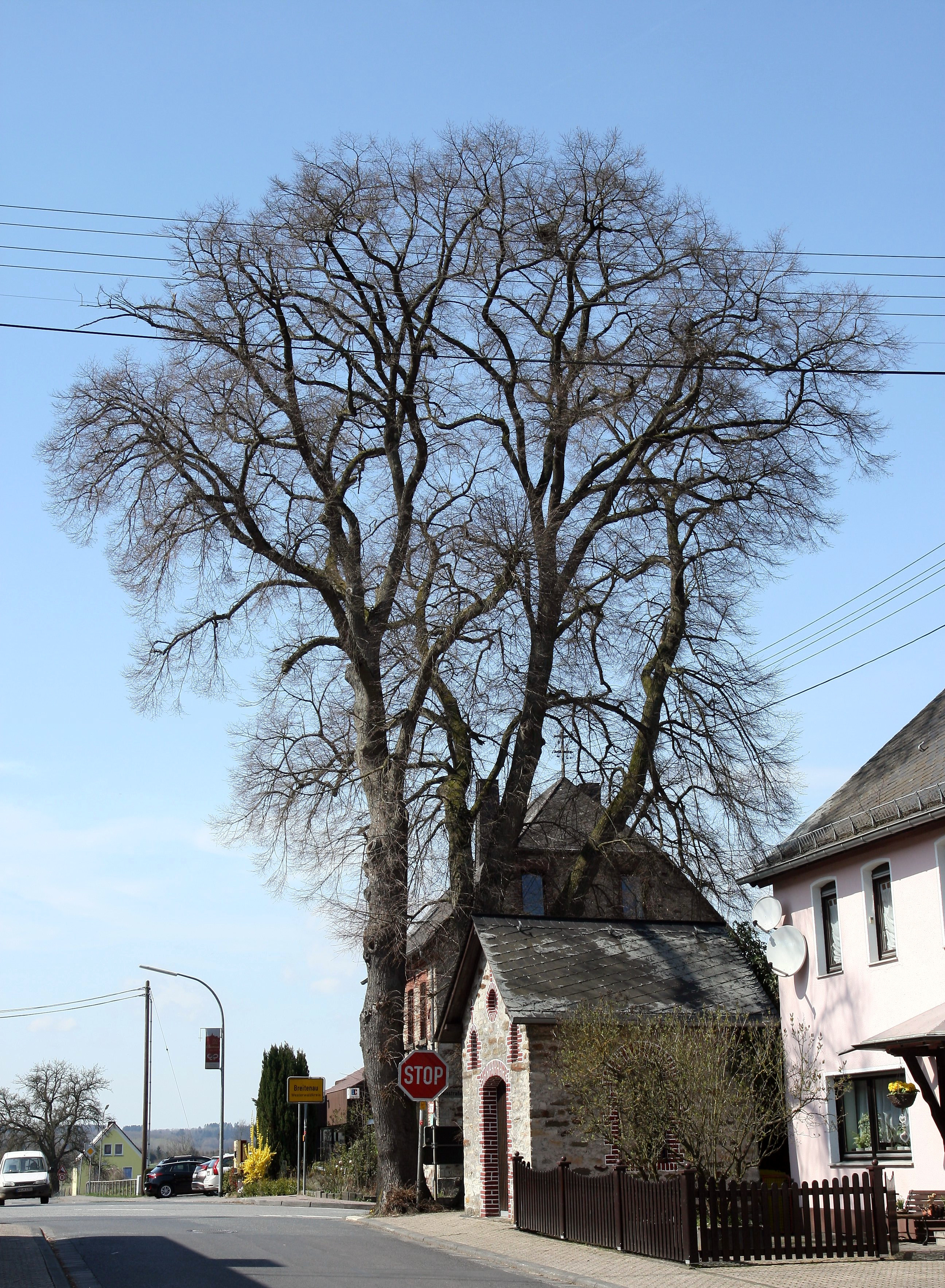 Tilia platyphyllos, two summer lime (linden) trees. Natural monument. Next to a chapel. Location: Hauptstraße/Rheinstraße junction, Wittgert, Westerwald, Germany